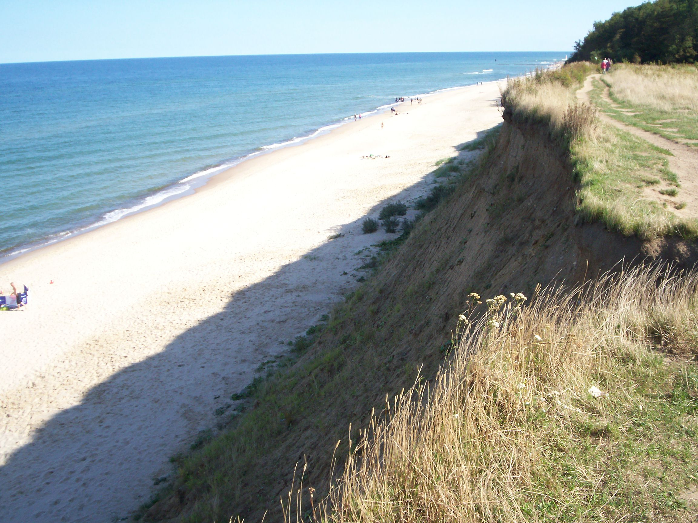 Cliff in Trzęsacz.